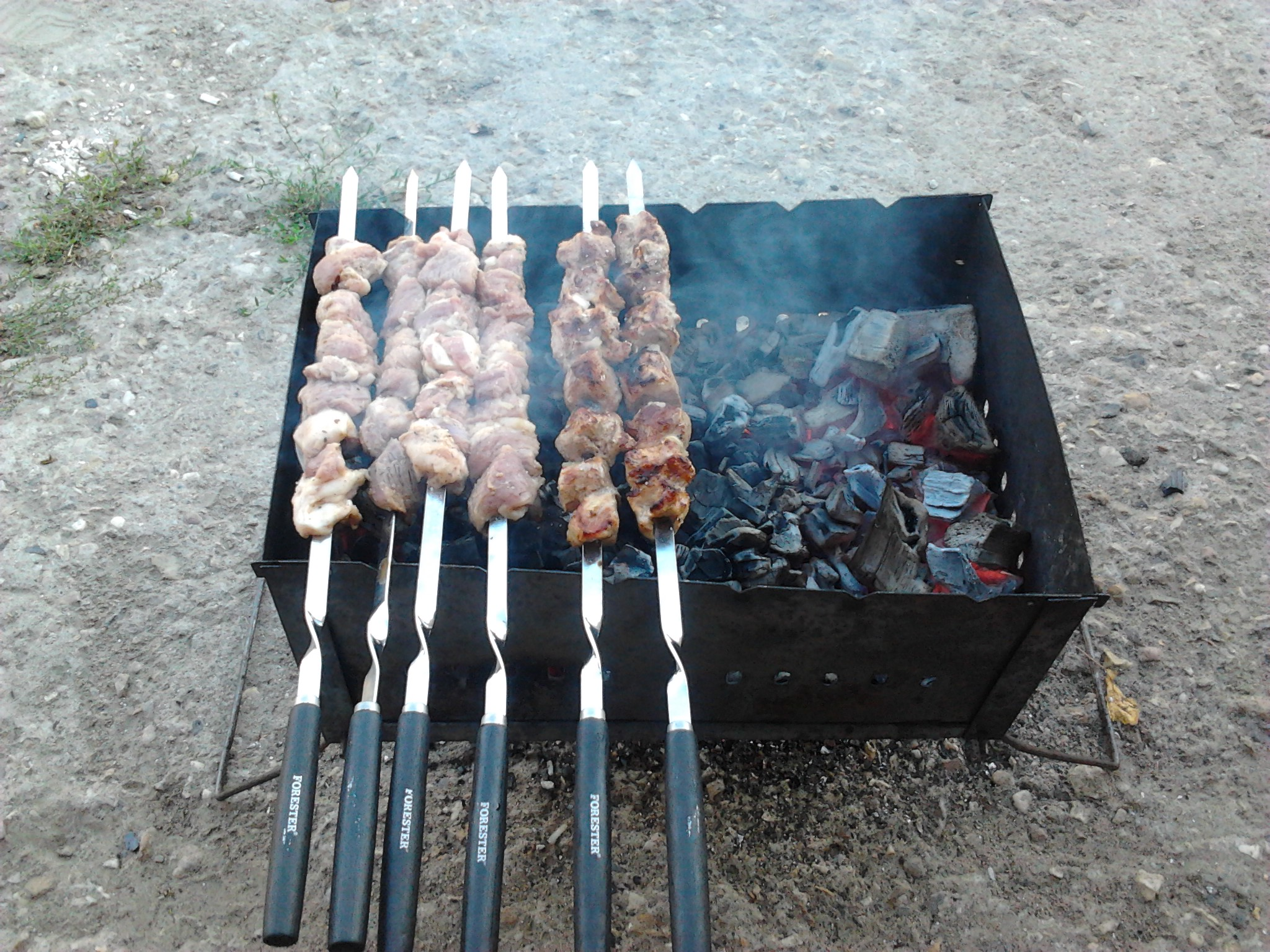 Shashlik on a mangal, Moscow oblast/Russia, 08 aug 2014